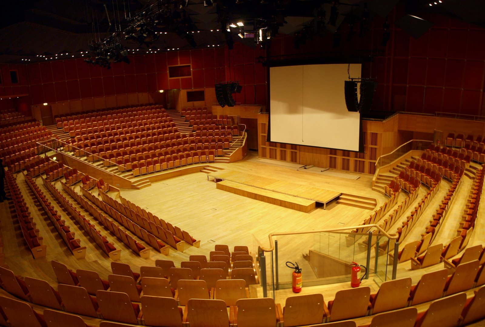 Photographs of the Ołowianka Island Complex: Polish Baltic Philharmonic, Central Maritime Musem and Hotel Królewski. Picture taken in Gdańsk after Wikimania 2010 conference.